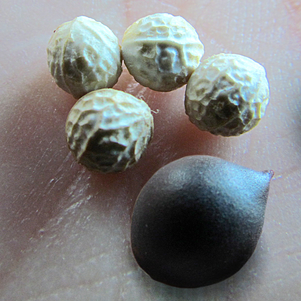 Drupe and stones of Celtis occidentalis